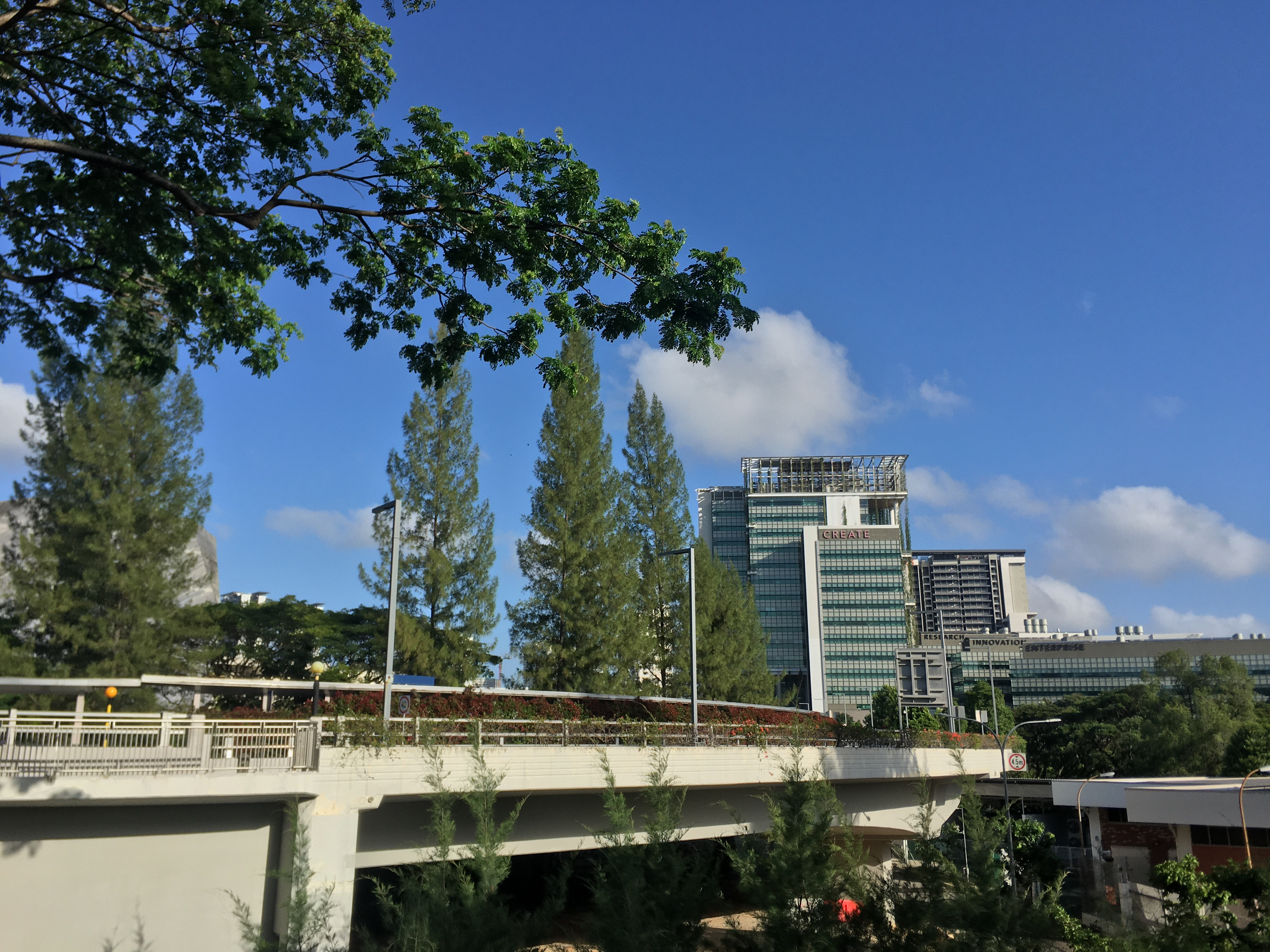 The CREATE research complex and the Lee Kong Chian Natural History Museum as seen from the Northwest corner of the National University of Singapore's Kent Ridge campus. The CREATE complex and LKCNHM are among NUS's major campus developments in the 2010s.